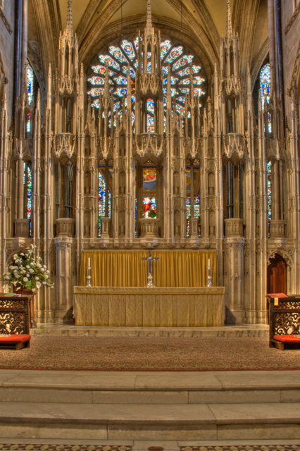 Durham Cathedral A view of the altar in Durham cathedral.